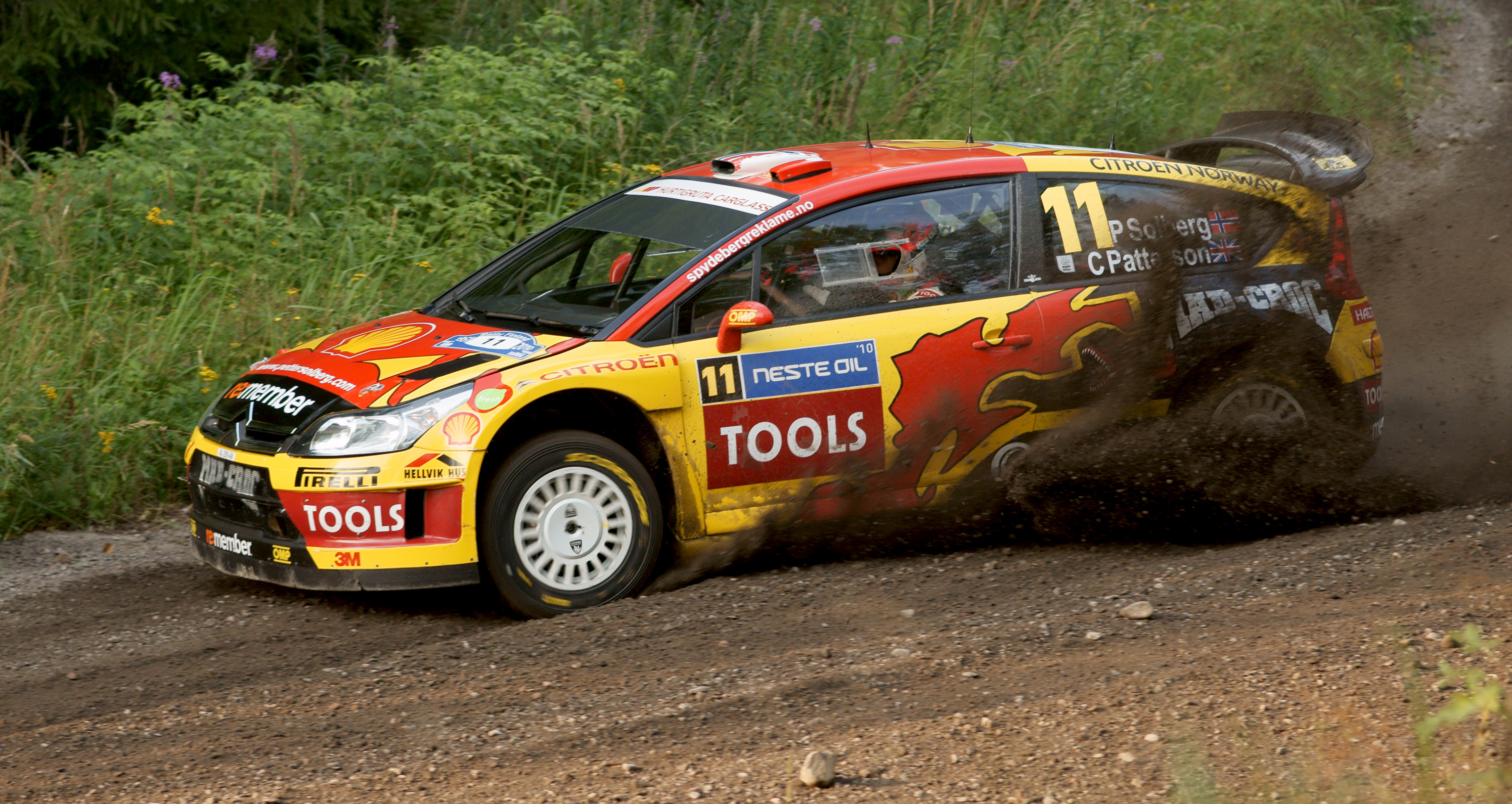 Petter Solberg driving at Laajavuori special stage, Rally Finland 2010.